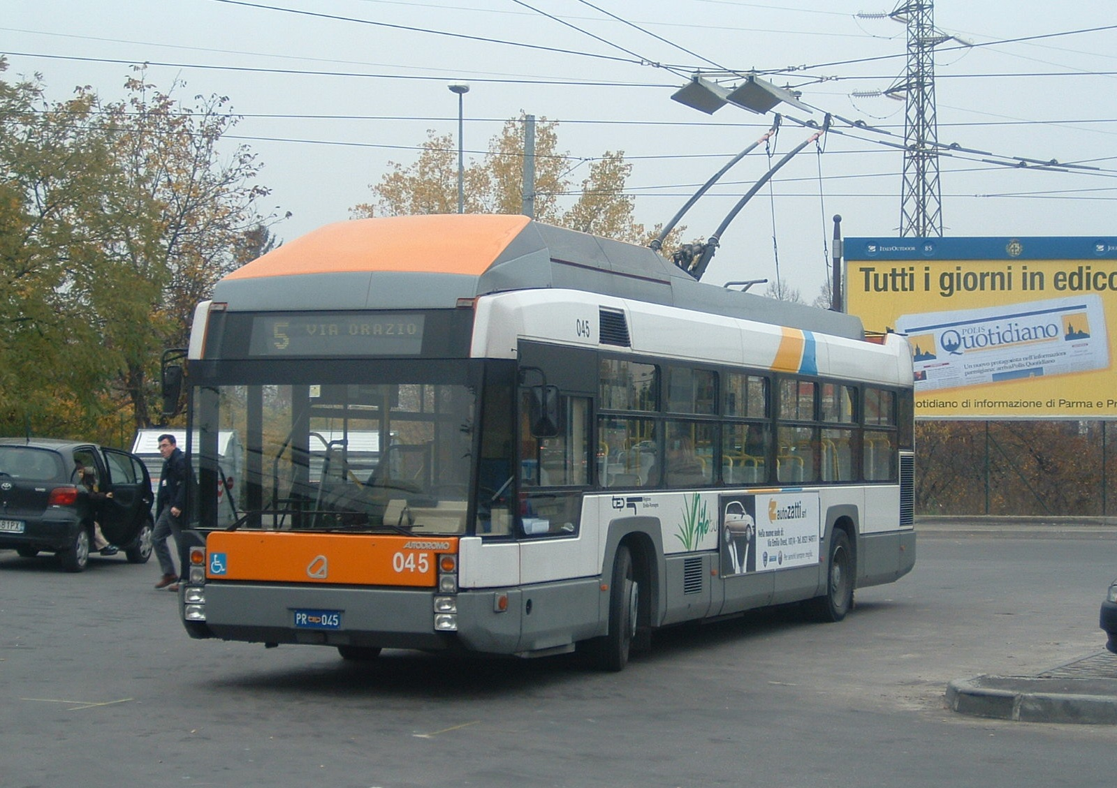 Parma trolleybus 045 is a low-floor trolleybus built in 1997 by Autodromo (on an MAN chassis). It entered service in 1998. It is pictured on route 5, which was converted to trolleybuses in November 1998.